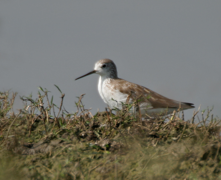 Marsh Sandpiper Tringa stagnatilis in Hyderabad, India.